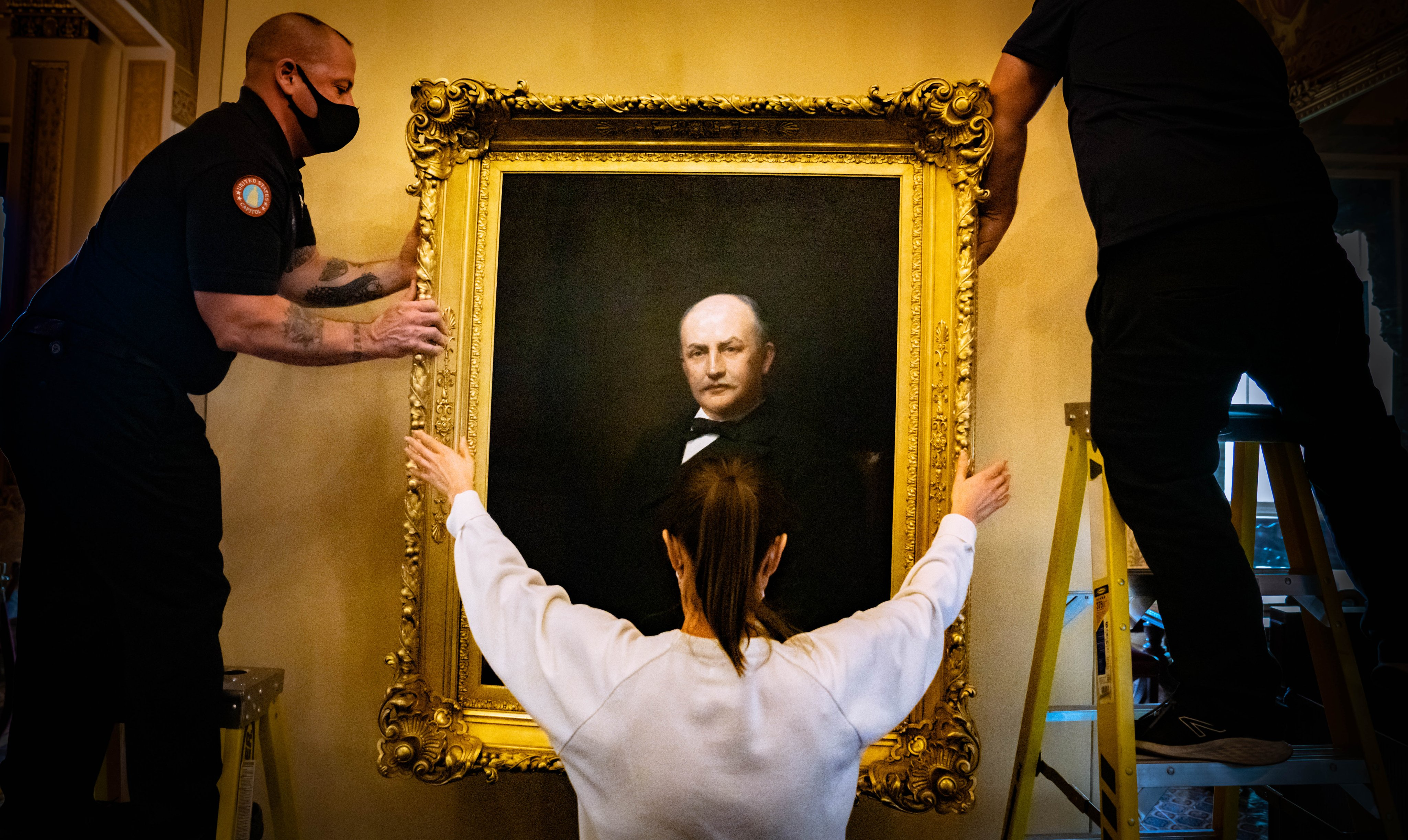 Ahead of tomorrow’s #Juneteenth observances, the portraits of four previous Speakers who served in the Confederacy have been removed from the walls of the U.S. Capitol under the supervision of House Clerk Cheryl Johnson.